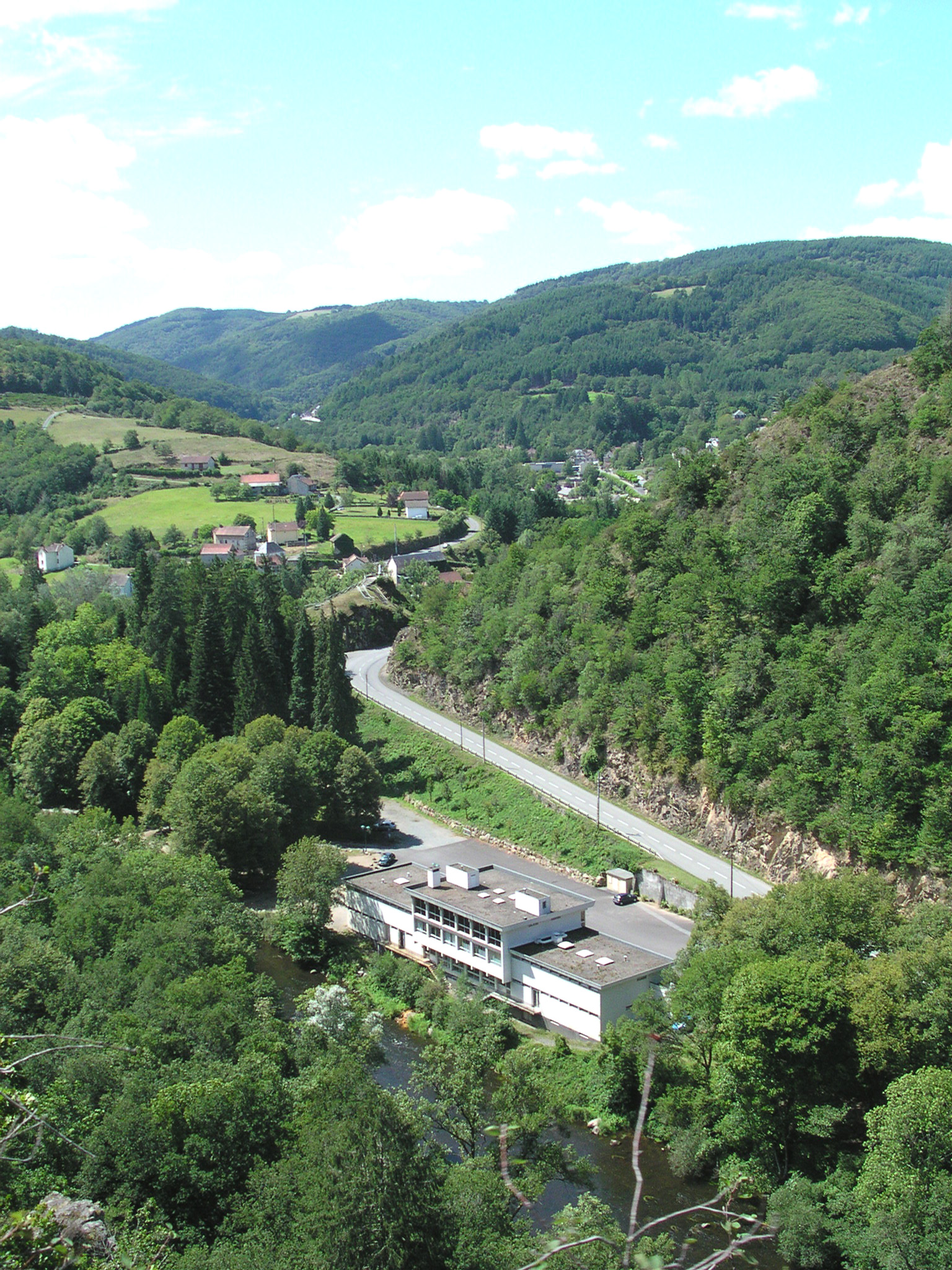 Châteauneuf-les-Bains : the spa water building and the village site behind (Auvergne, France). Pcture taken from the top of the Charlemagne rock Auteur/Author Romary août/August 2006